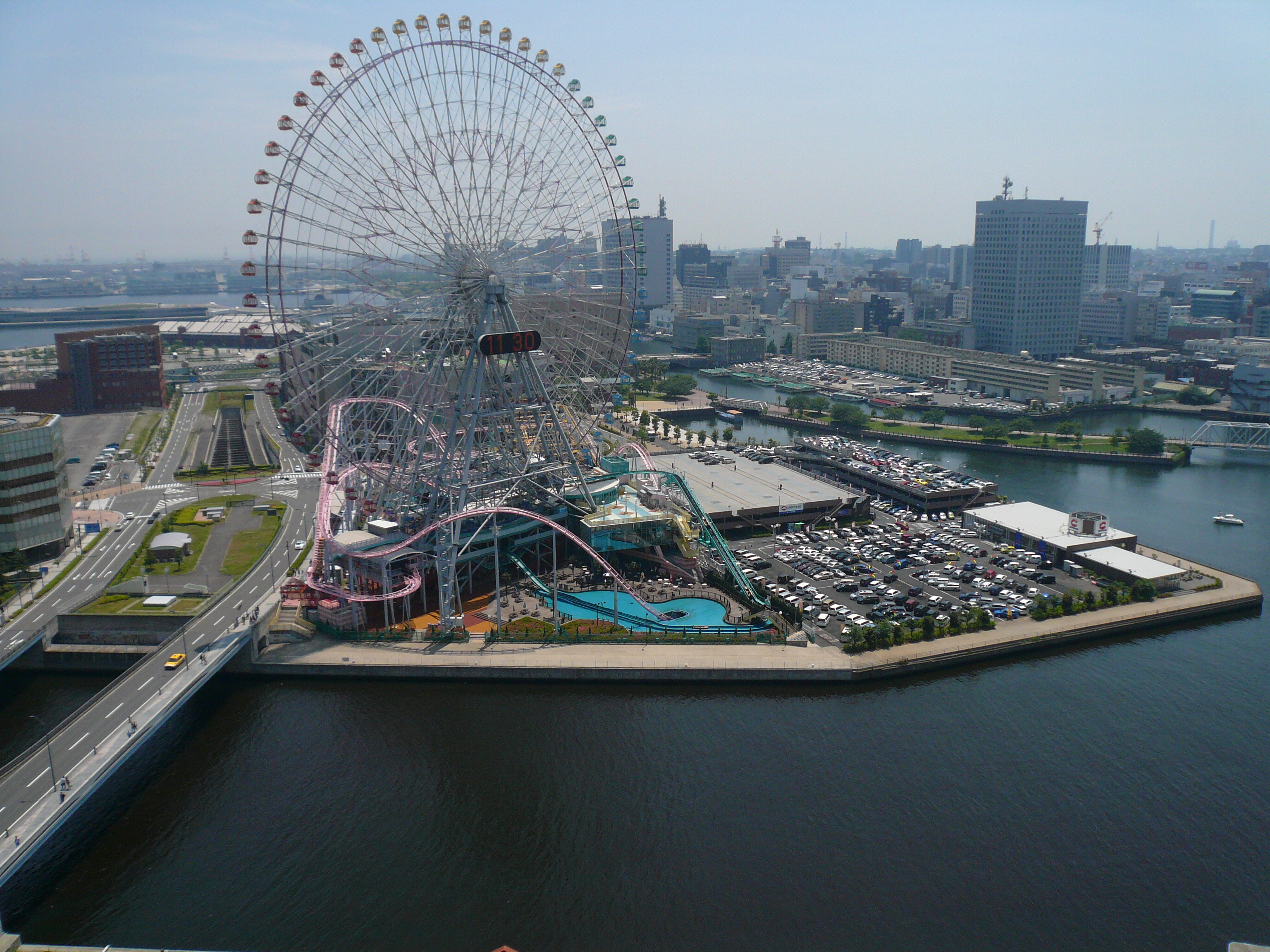 YOKOHAMA Cosmo World